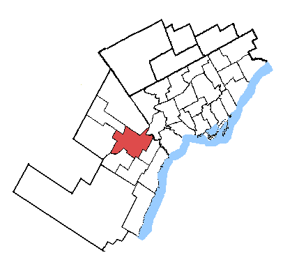 Map of the Mississauga Brampton South electoral district. Based on Earl Andrew's maps, created by SimonP.